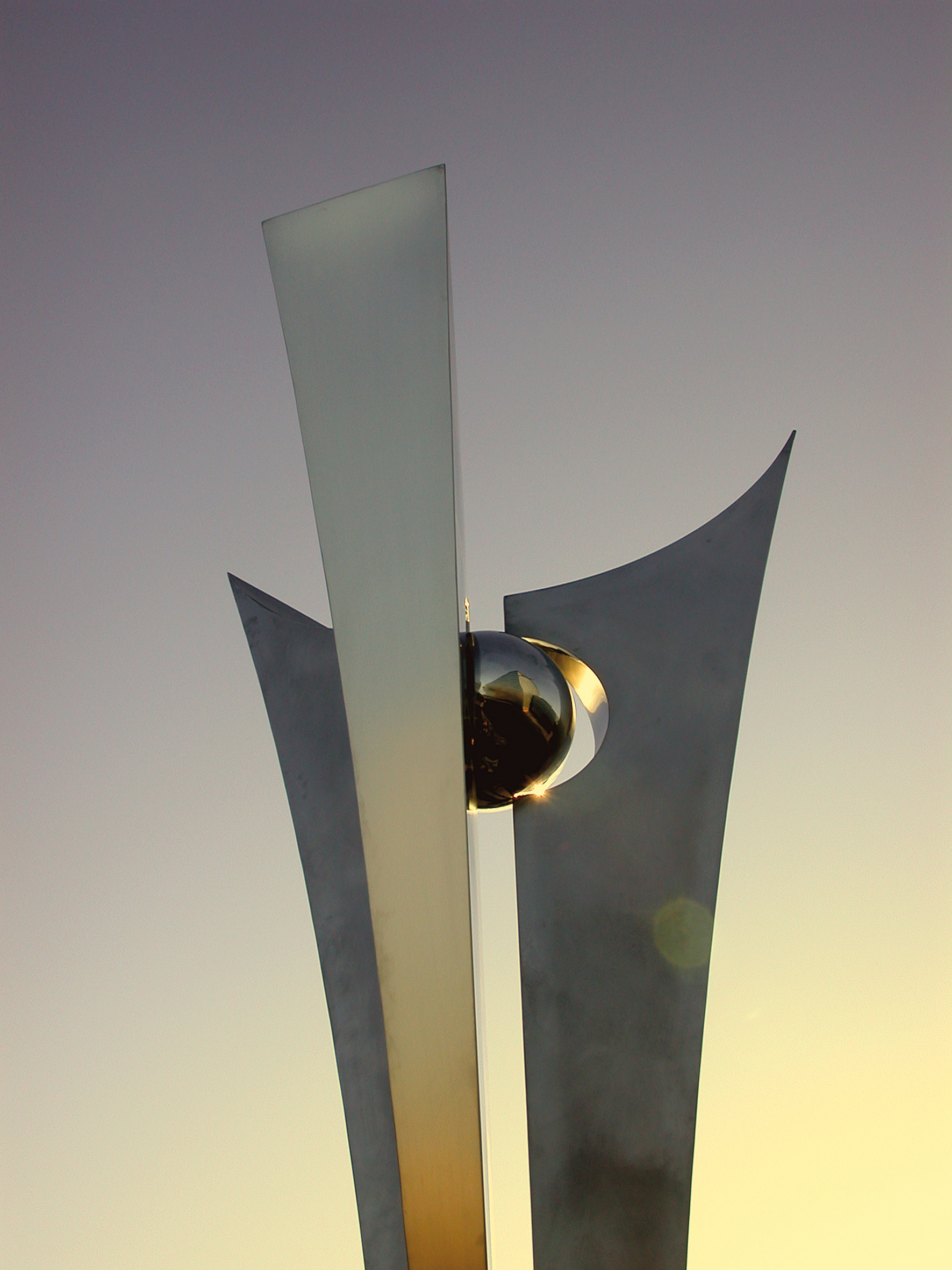 Olympic Flame